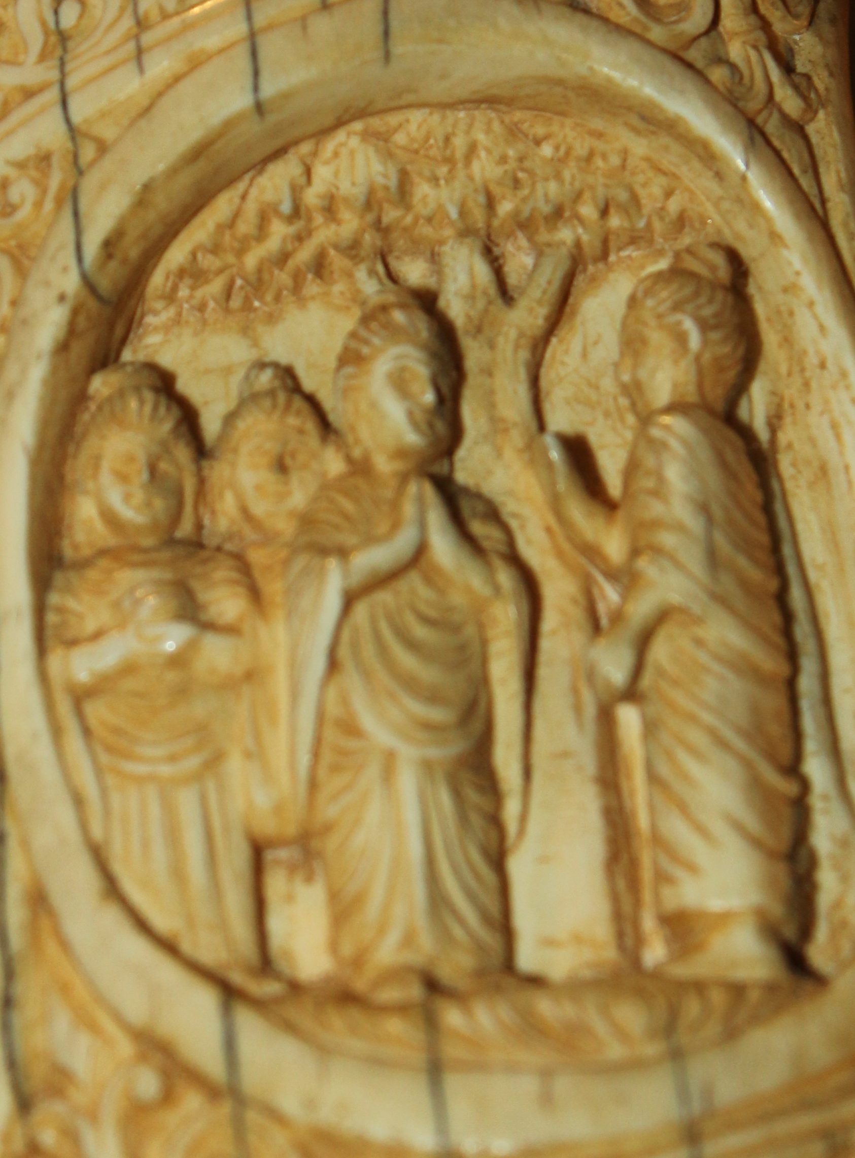 Roundel 39: Buddha stops Nanda, who tried to escape from the sangha